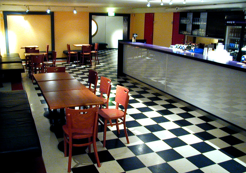 Ravintolatila